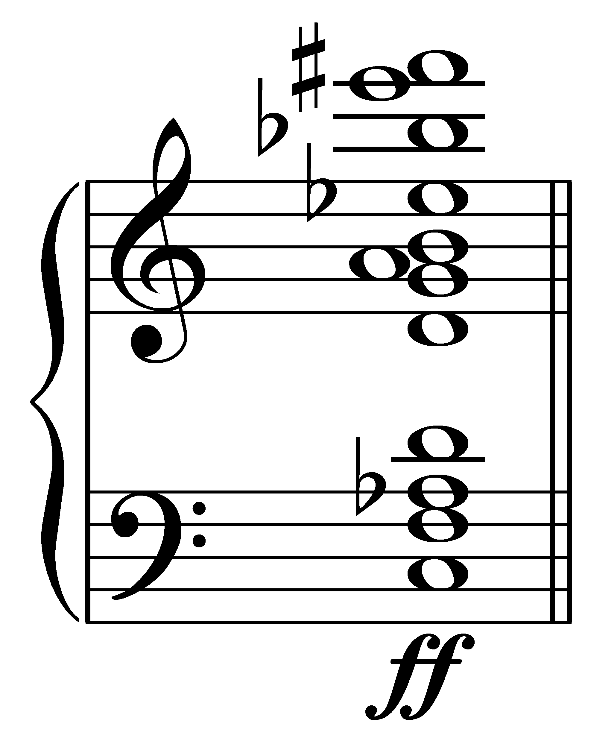 The opening eleven note chord from Aaron Copland's Inscape, without orchestration shown.